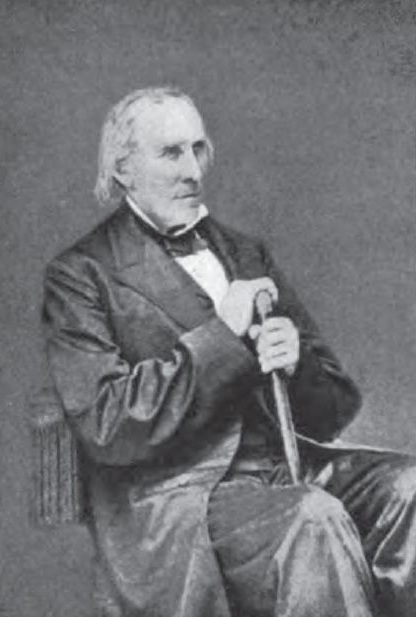 Work published in 1914. Digitized on Google books at